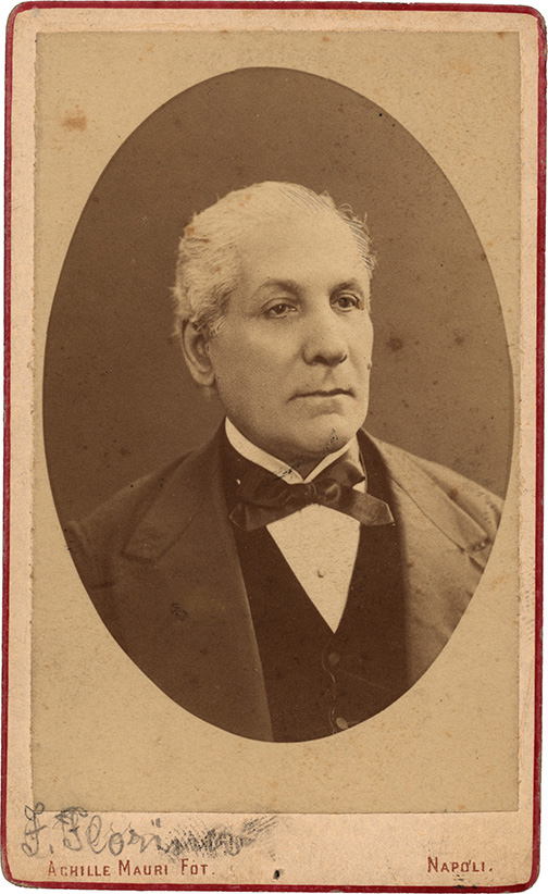 Portrait of Francesco Florimo, librarian (1800-1888). Photo by Achille Mauri, Napoli, before 1888.